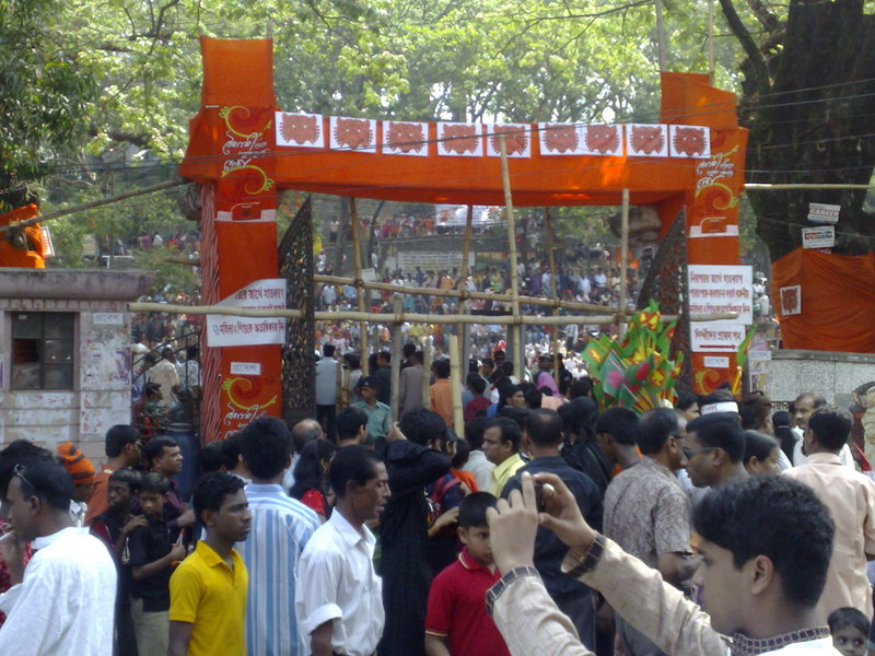 Celebrating Pohela Boishakh at DC Hill, Chittagong, Bangladesh.